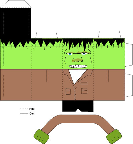 Paper Toy